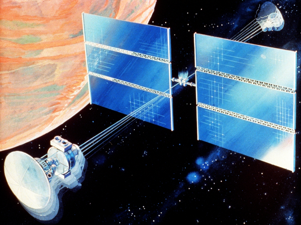 S89-25059 (January 1989) --- A NASA artist's concept of a vehicle which could provide an artificial-gravity environment of Mars exploration crews. The piloted vehicle rotates around the axis that contains the solar panels. Levels of artificial gravity vary according to the tether length and the rate at which the vehicle spans.